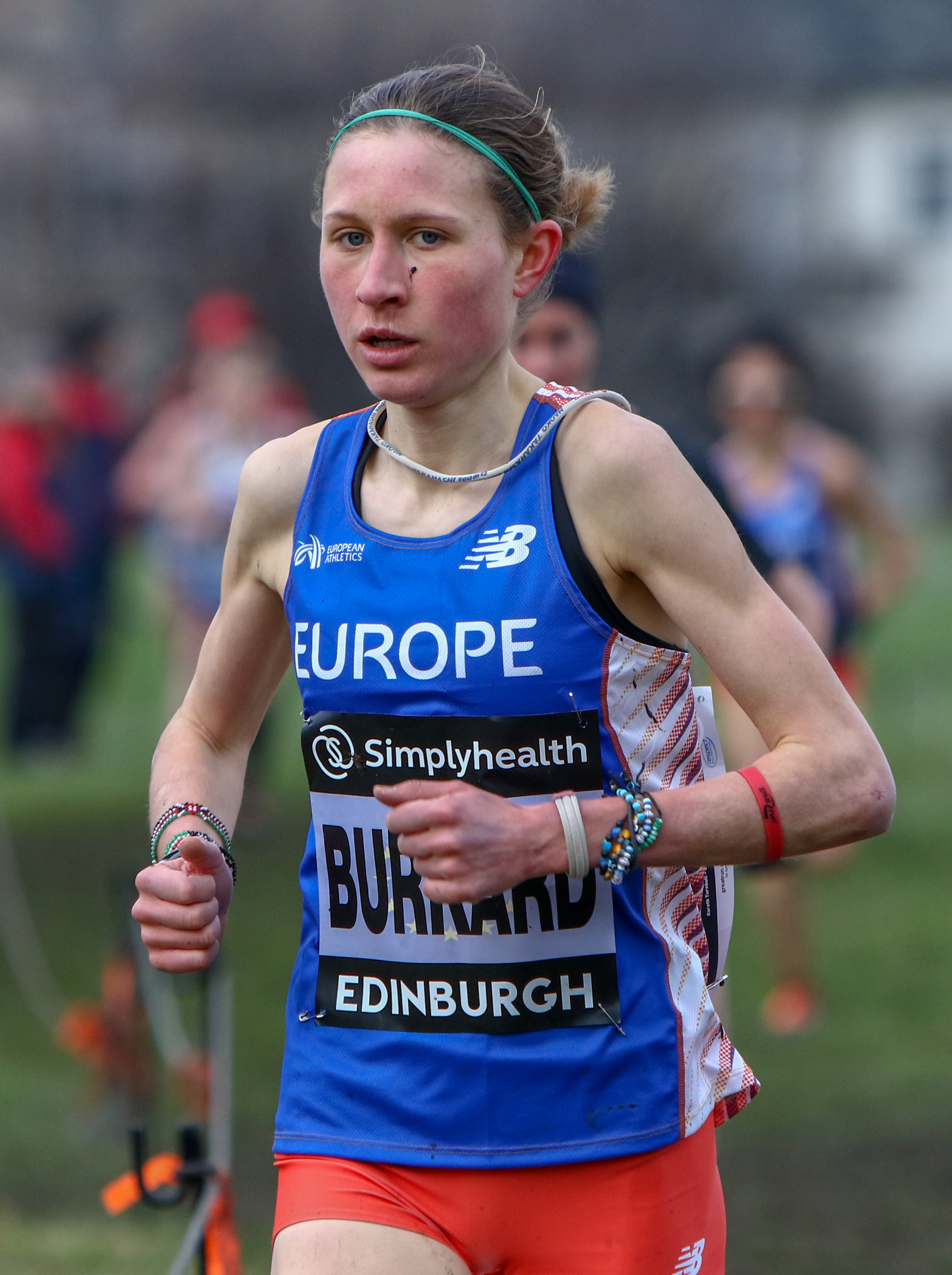 Great Edinburgh International Cross Country 2018 – Senior Women's 6km